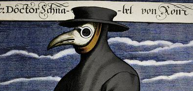 Description: Copper engraving of Doctor Schnabel [i.e Dr. Beak], a plague doctor in seventeenth-century Rome, with a satirical macaronic poem (‘Vos Creditis, als eine Fabel, / quod scribitur vom Doctor Schnabel’) in octosyllabic rhyming couplets.